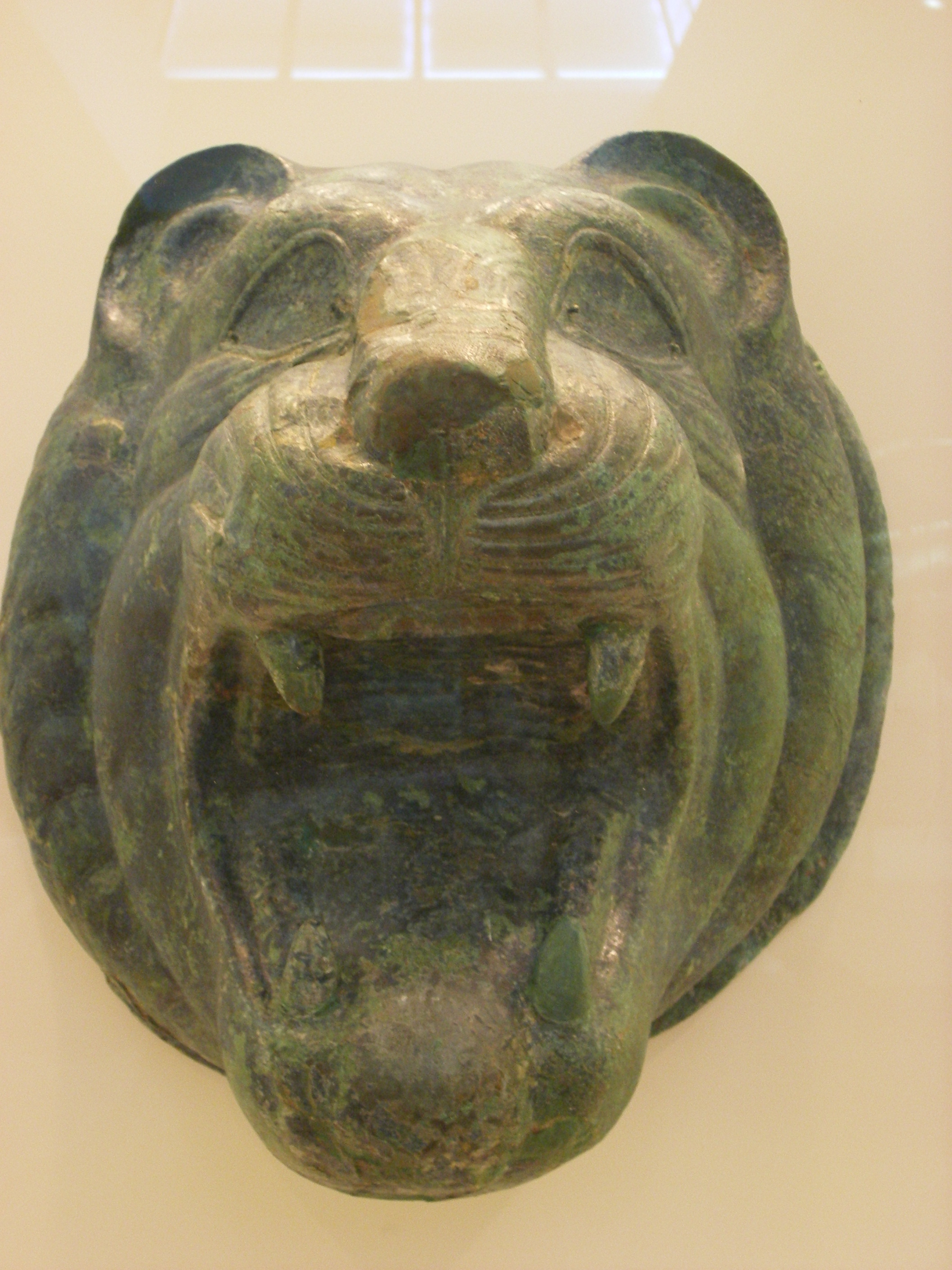 Lion head, bronze. Importation from middle-east, neo-hittite (8th century BCE)